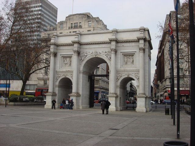 Marble Arch, south frontage